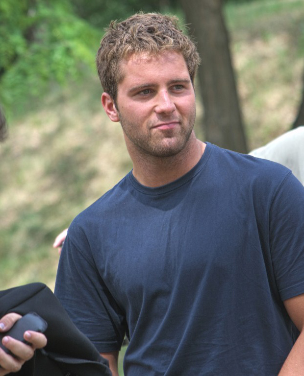 Tamás Sors, Hungarian swimmer, paralimpic gold medalist in 2012